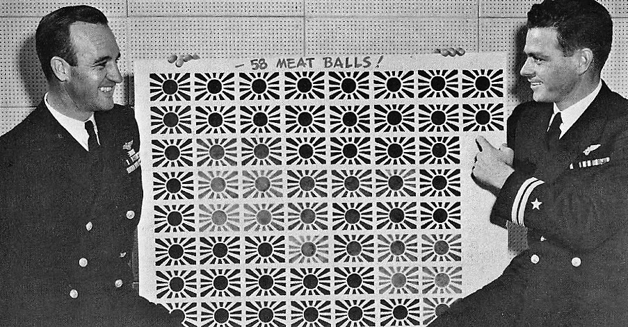 Cecil Harris (right) and David McCampbell, the Navy's two highest-scoring aces, show off their combined total of 58 aerial victories: 34 for McCampbell and 24 for Harris.